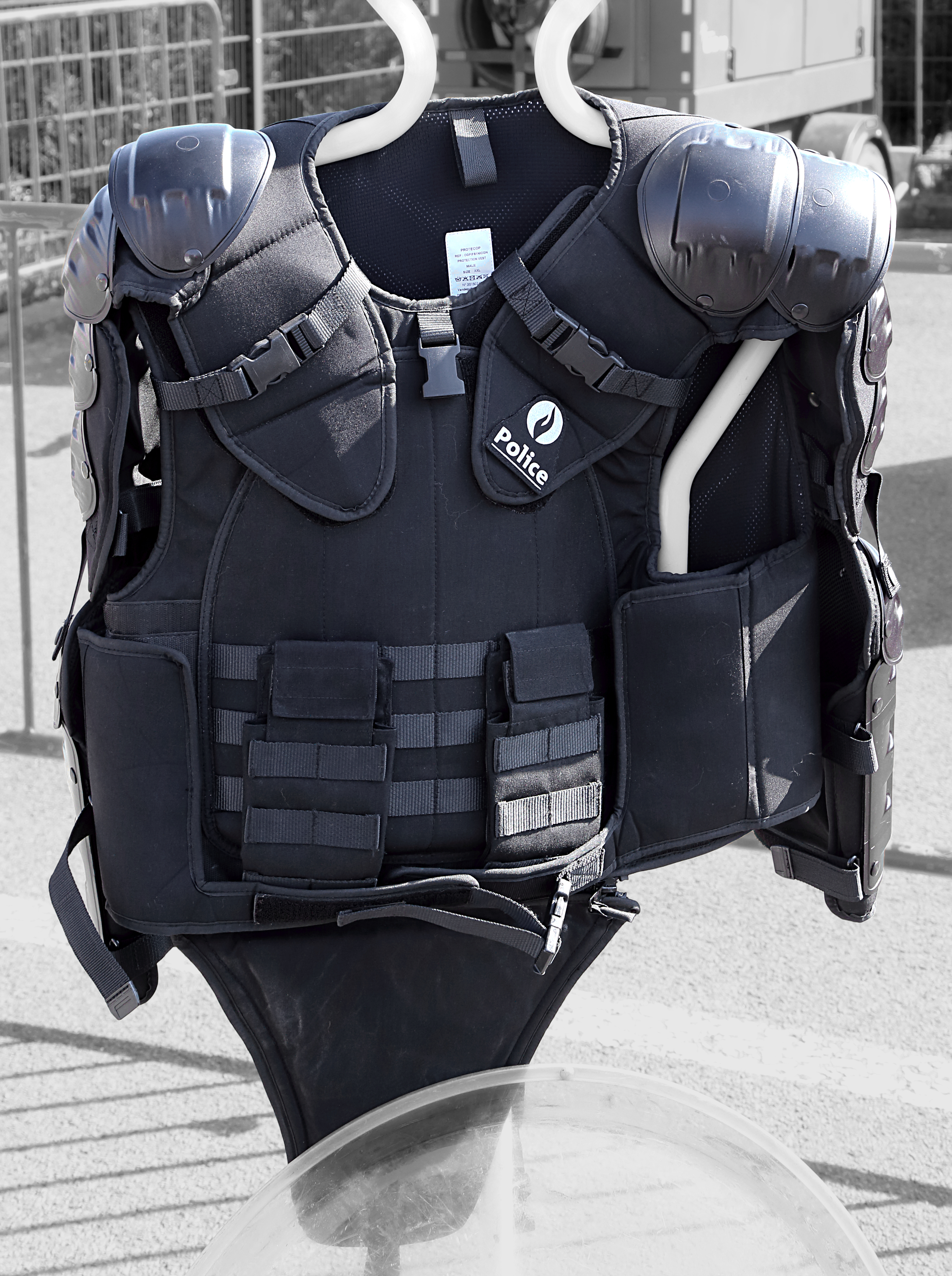 Body armour (front) of the Belgian police. Picture taken in Mouscron, Belgium.